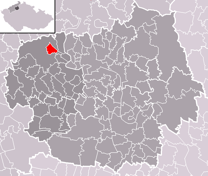 Location of Chotiměř municipality within Litoměřice District and administrative area of Lovosice as a Municipality with Extended Competence.